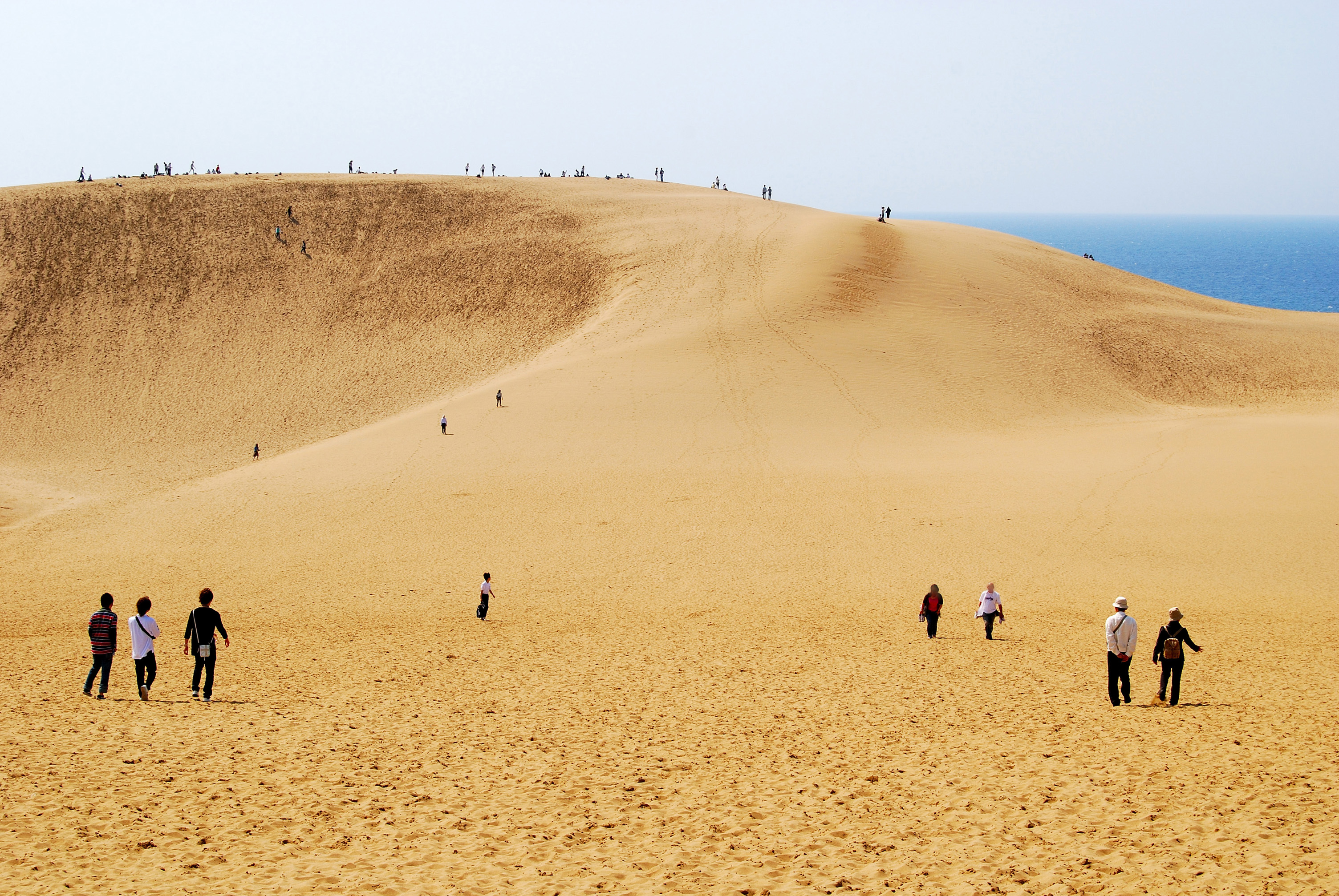 Tottori Sakyu ( Tottori Sand Dune ) in Tottori Prefecture, Japan